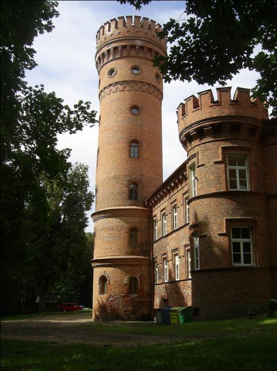 110 ft tower built in 16th century on a hill opening a view to the valley of Nemunas river.